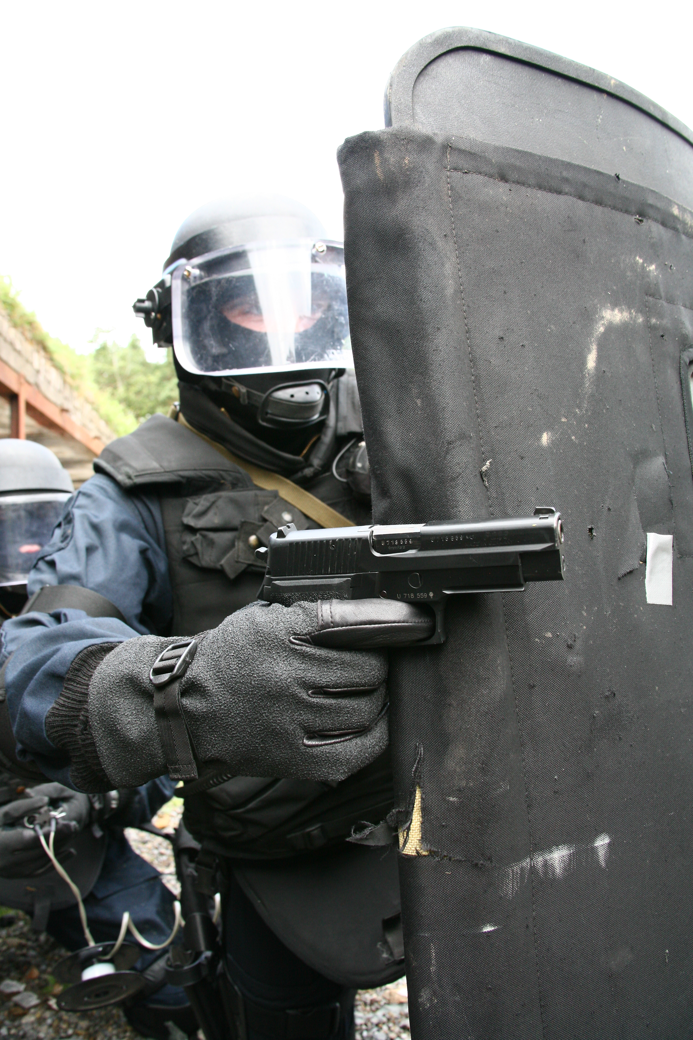 Irish Army Ranger Wing (ARW) counter terrorism exercise.